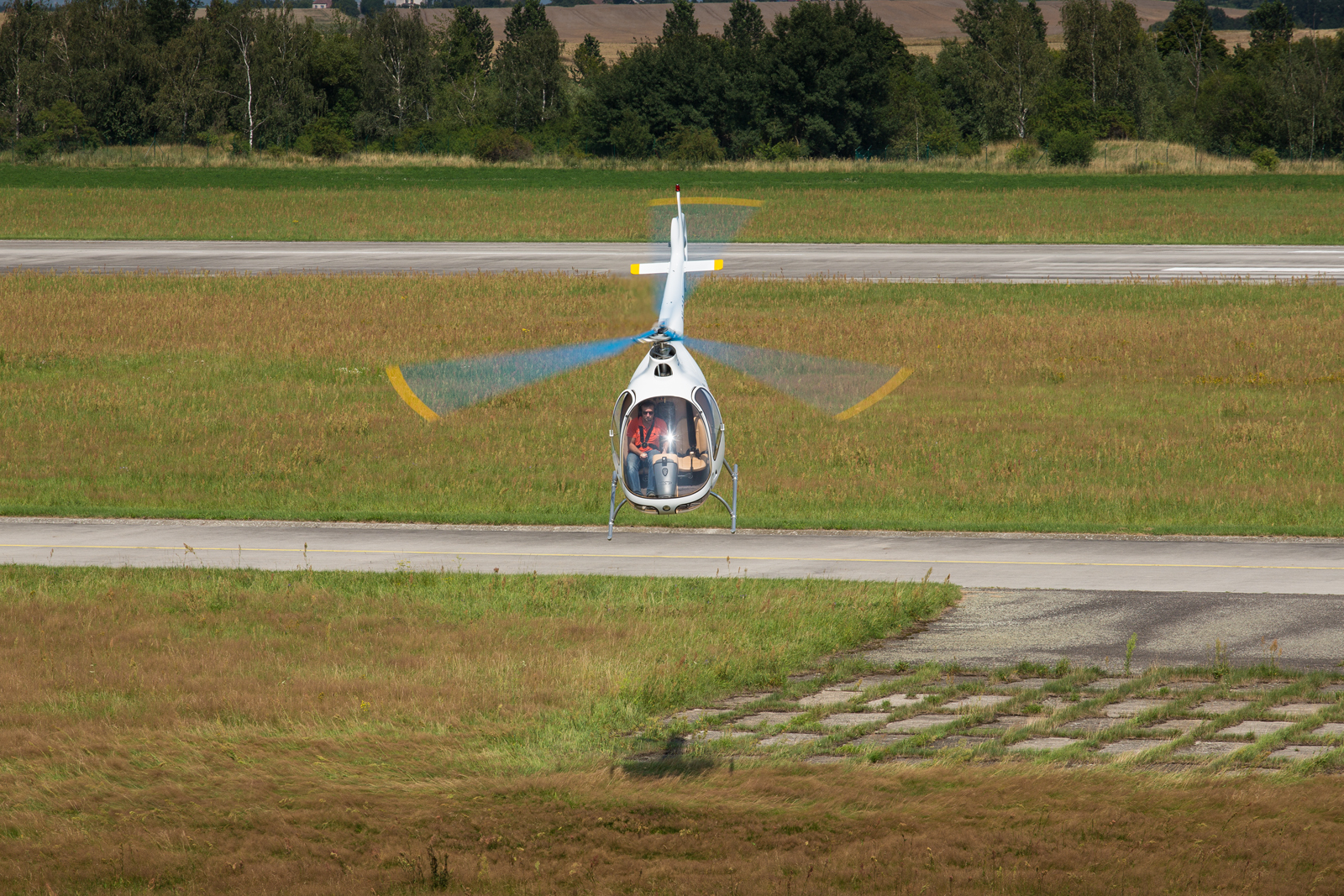 Guimbal Cabri G2 OK-CAB in-flight